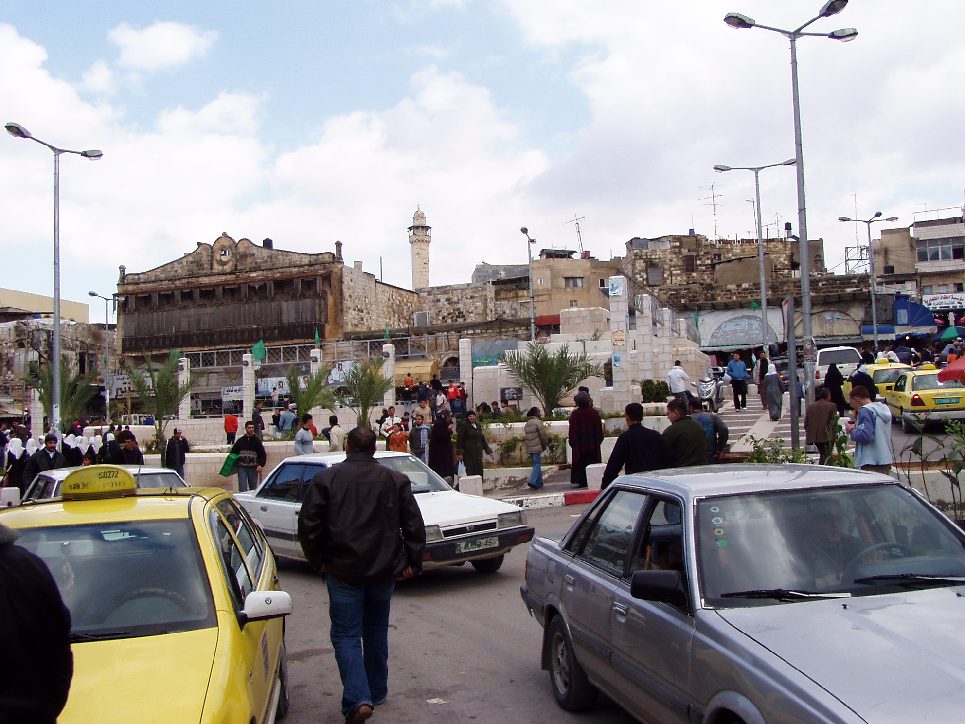 Tulkarm city center